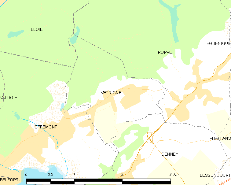 Map of French municipality Vétrigne